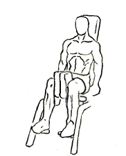 an exercise of thigh